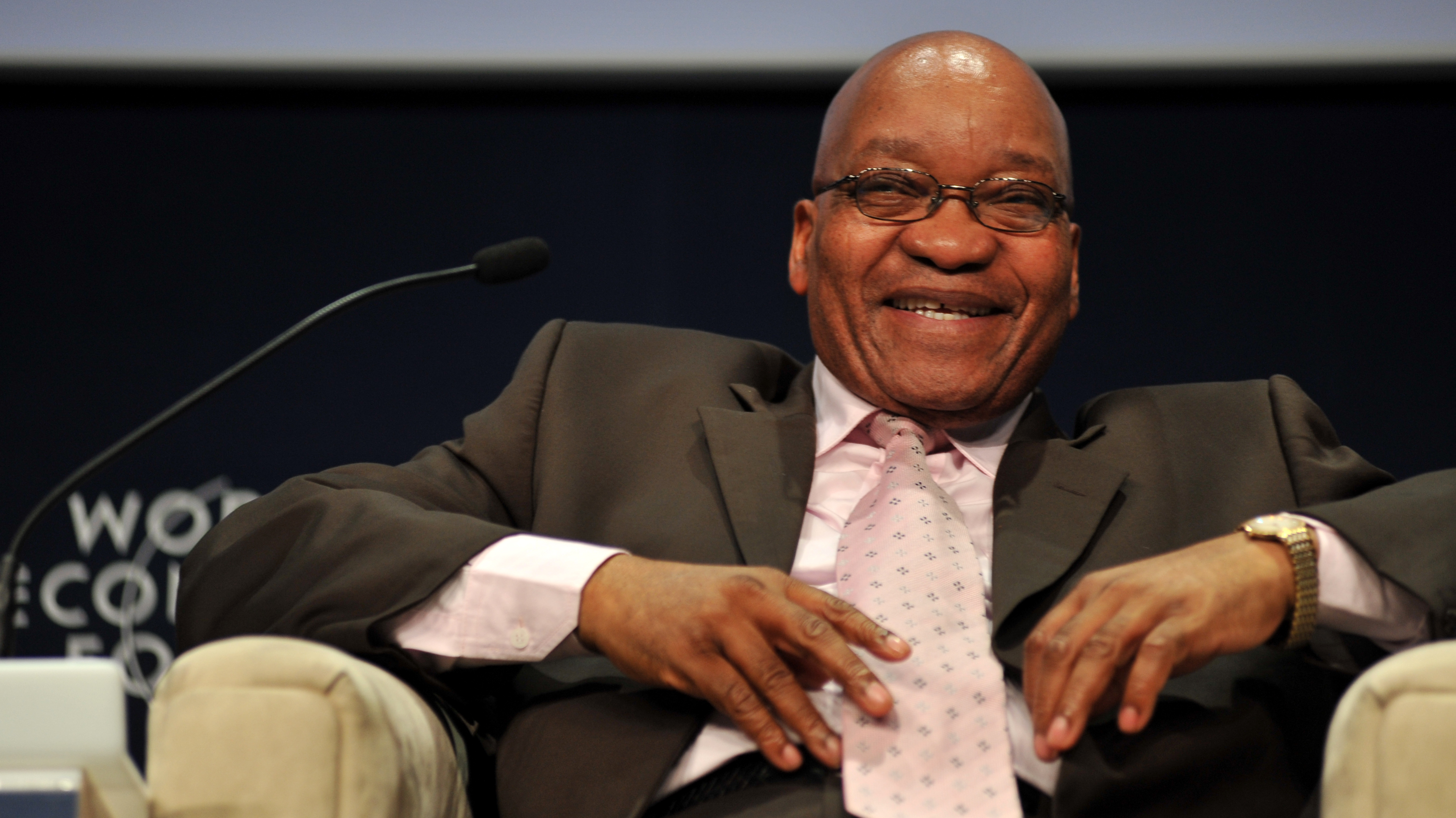 CAPE TOWN/SOUTH AFRICA, 12JUN2009 - Jacob Zuma, Presdent of South Africa, at the Closing Plenary : Africa's Roadmap: From Crisis to Opportunity held during the World Economic Forum on Africa 2009 in Cape Town, South Africa, June 12, 2009